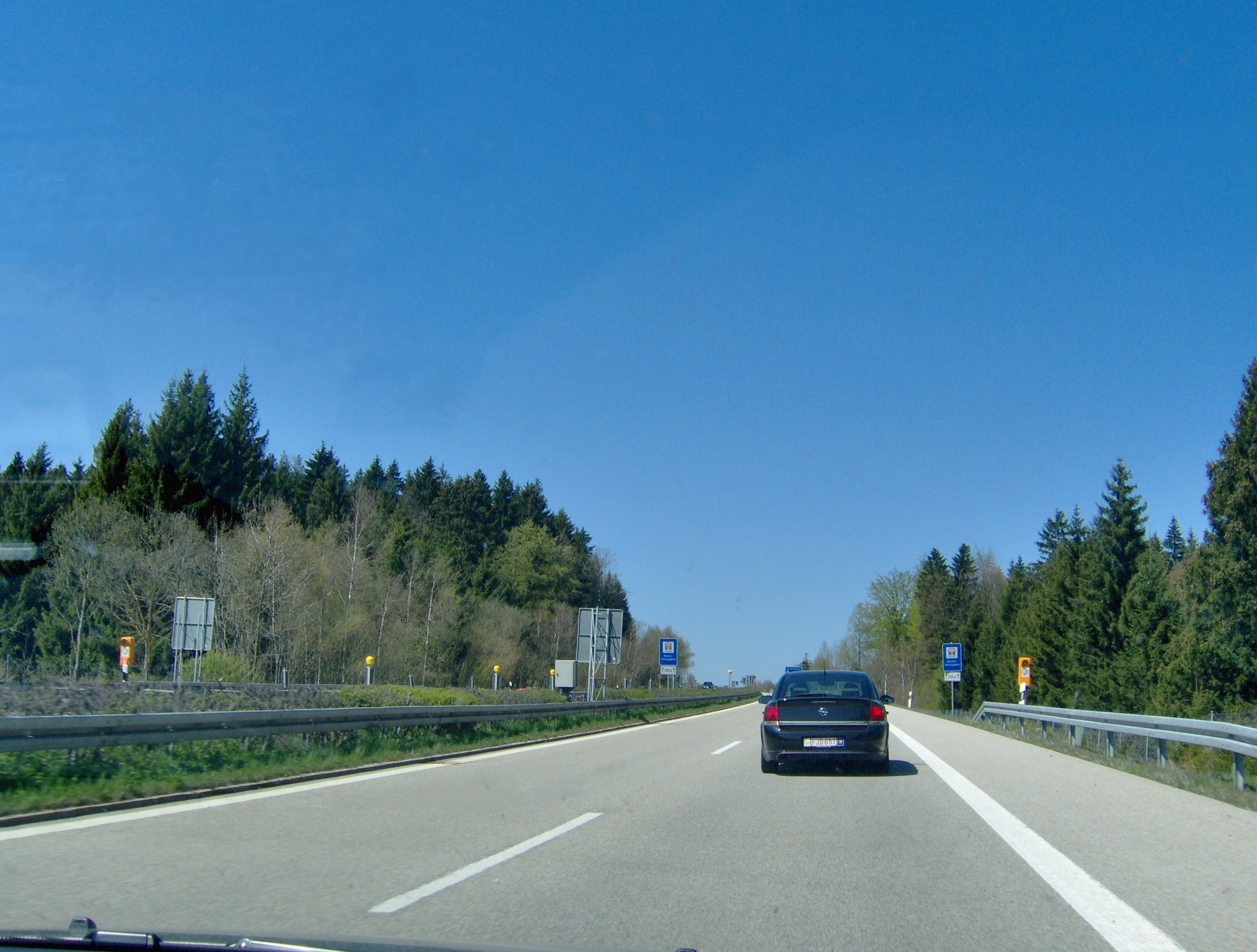 The beginning of the German highway A7 near Nesselwang, Bavaria, Germany